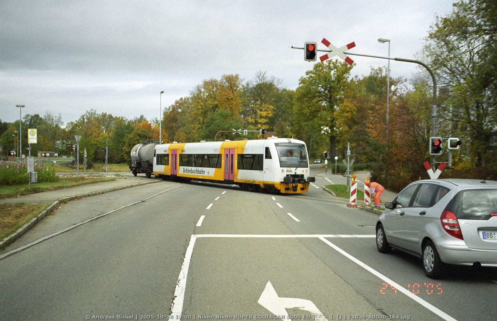 Schönbuchbahn Regio Shuttle hauling a freight car near Zimmerschlag station